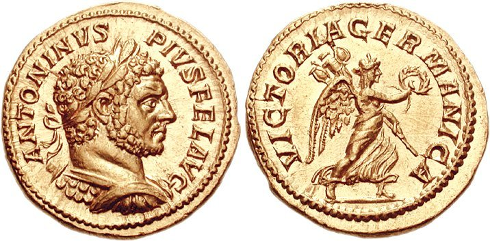 Caracalla. AD 198-217. AV Aureus (7.46 g, 1h). Rome mint. Struck AD 213. ANTONINVS PIVS FEL AVG, laureate and cuirassed bust right VICTORIA GERMANICA, Victory advancing right, holding trophy in left hand over left shoulder and wreath in extended right hand. RIC IV 237 var. (bust type); Calicó 2833; BMCRE 64 var. (break in rev. legend); Cohen 645 var. (bust type).